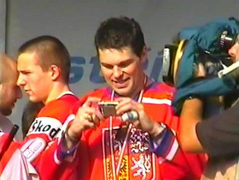 Jaromír Jágr, Czech ice hockey player - Prague, Old Town Square